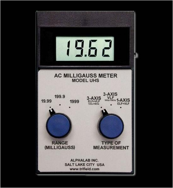 EMF Meter